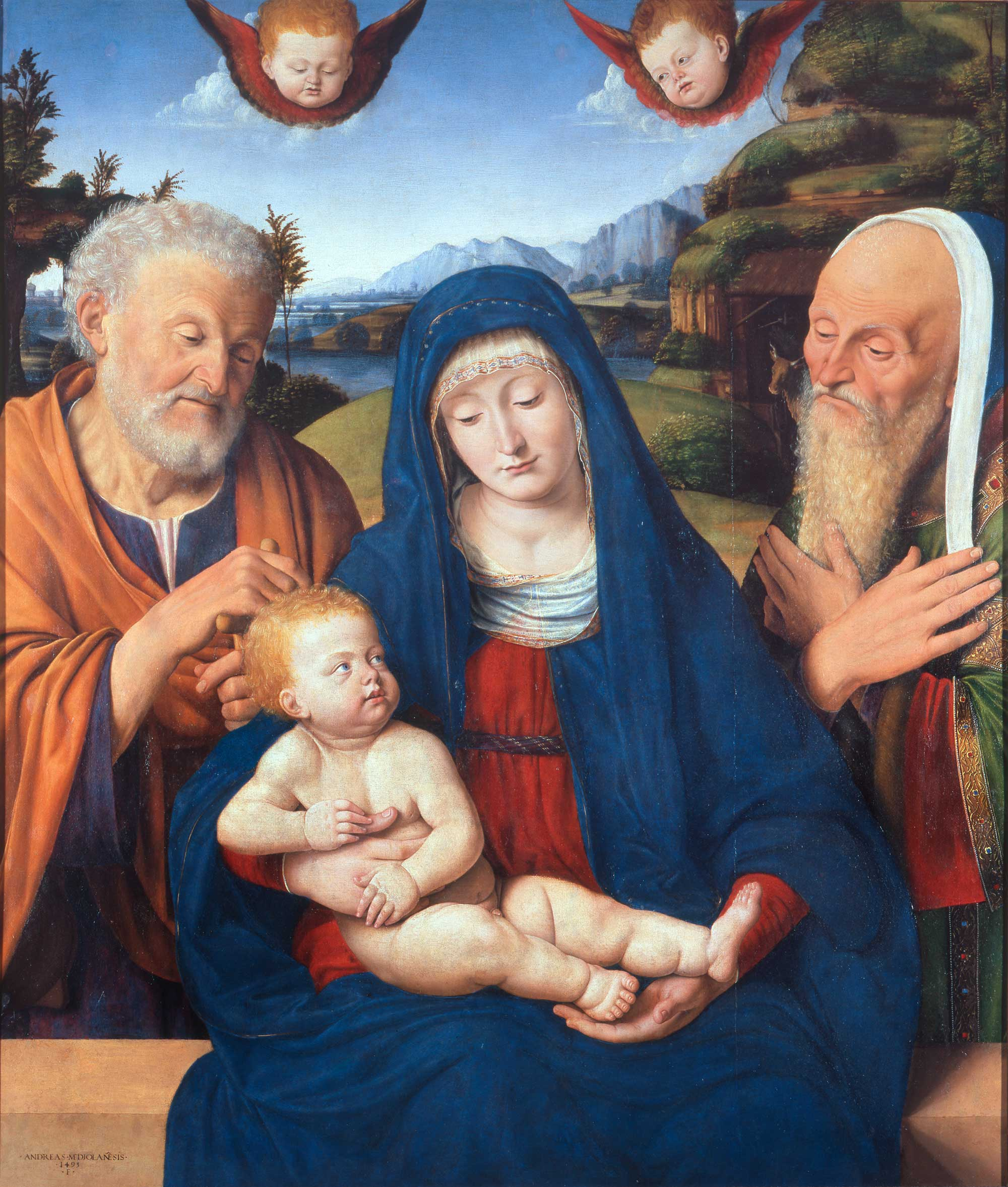 Madonna and Child with St. Joseph and St. Simeon